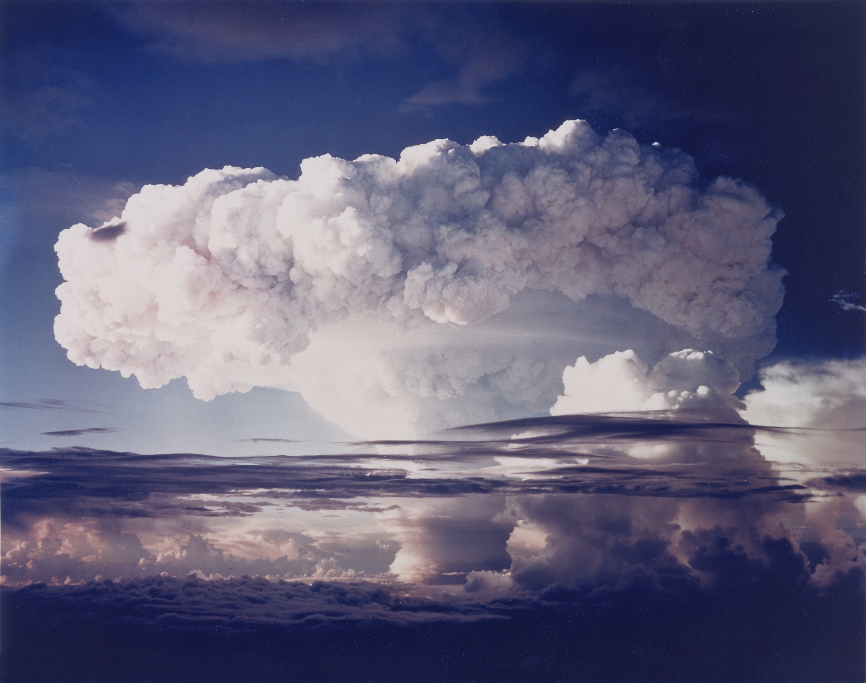 U.S. nuclear weapon test Ivy Mike, the first test of a thermonuclear weapon (hydrogen bomb)